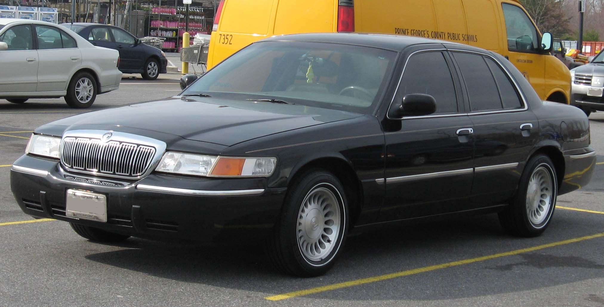 1998-2002 Mercury Grand Marquis photographed in USA.